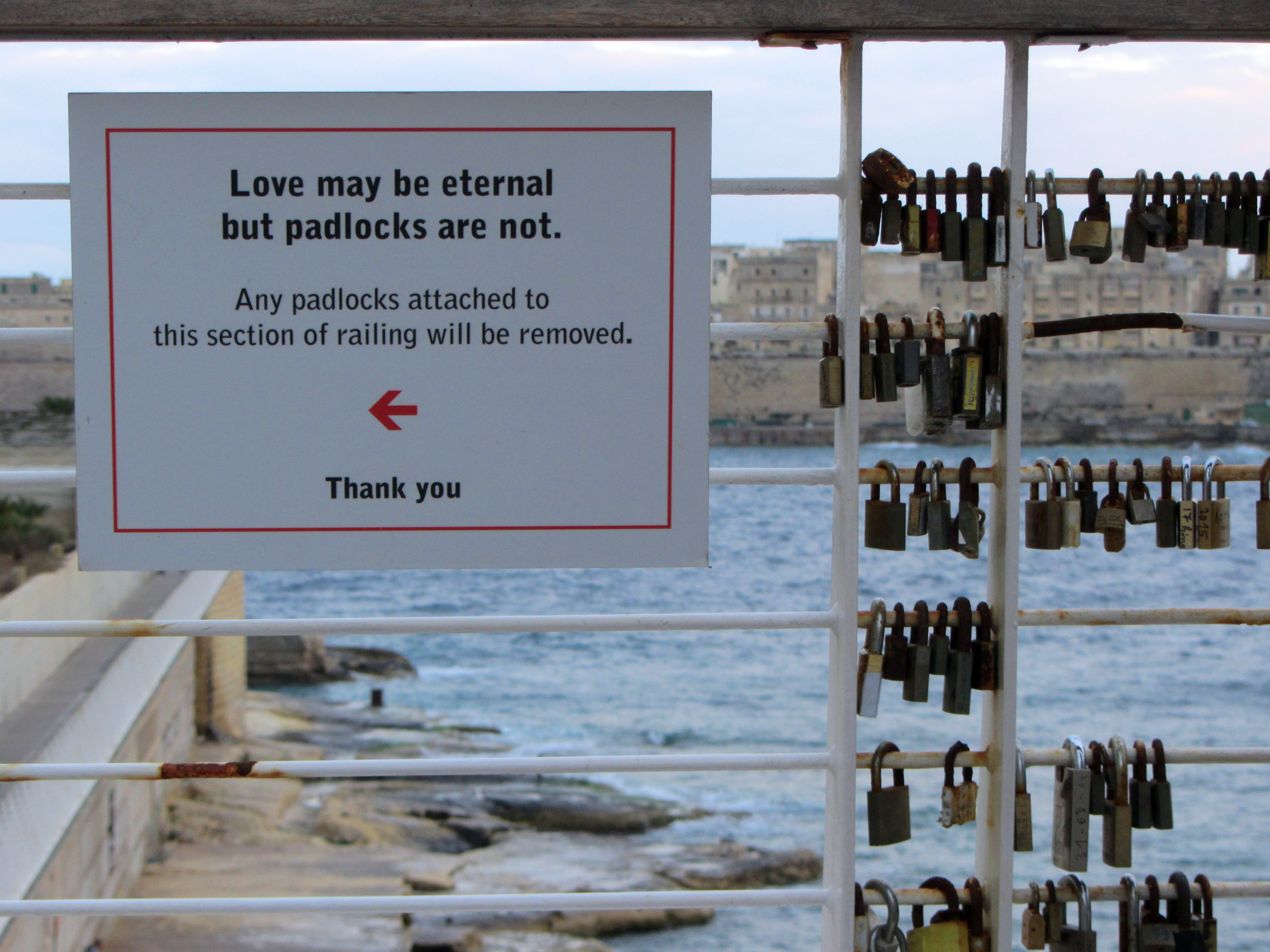 Love padlocks and warning sign at Tigné Point, Sliema, Malta